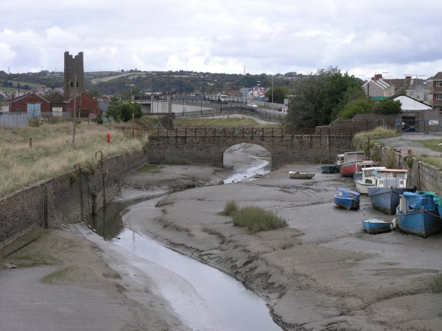 Tidal gulley A tidal gulley near the new Millennium Park development. Rather than being part of an old church, the tower in the distance is part of an old factory that's currently being renovated.